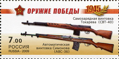 Russian stamp no. 1311 commemorating the 65th anniversary of Victory in the Great Patriotic War, featuring the SVT-40 and AVS-36.